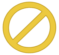 I, Jeeny|, created this image especially for the Power of Veto sign for Big Brother 8. It may be used for any use, by anyone, for anything, with no attribution needed. I release it to the Public Domain.